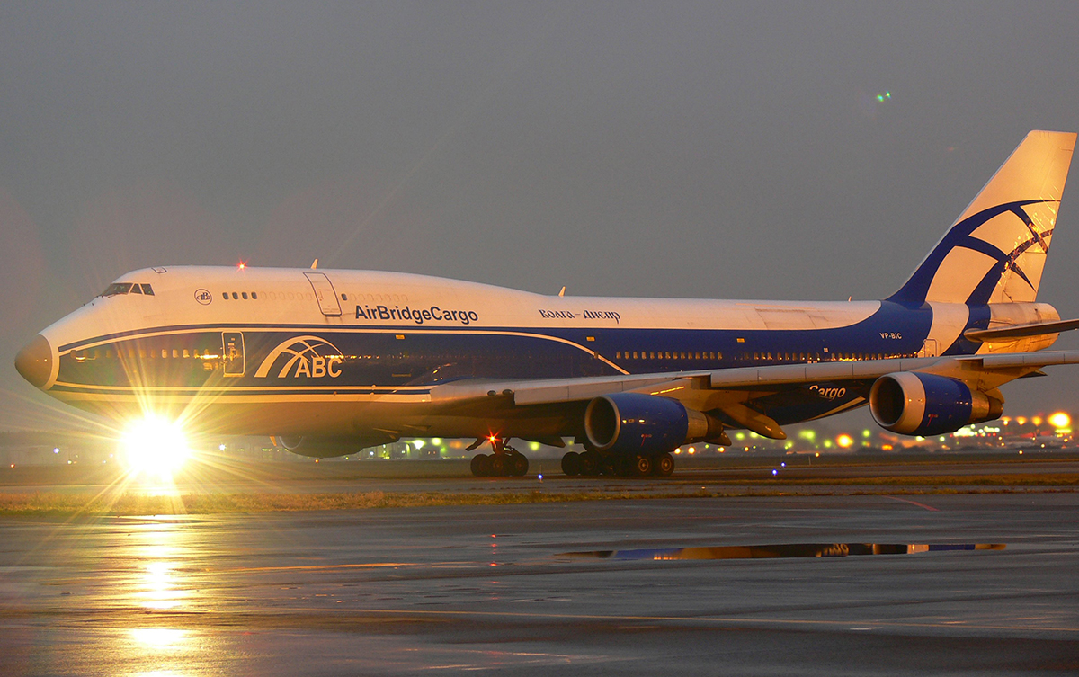 "Air Bridge Cargo" B-747 VP-BIC Taxing